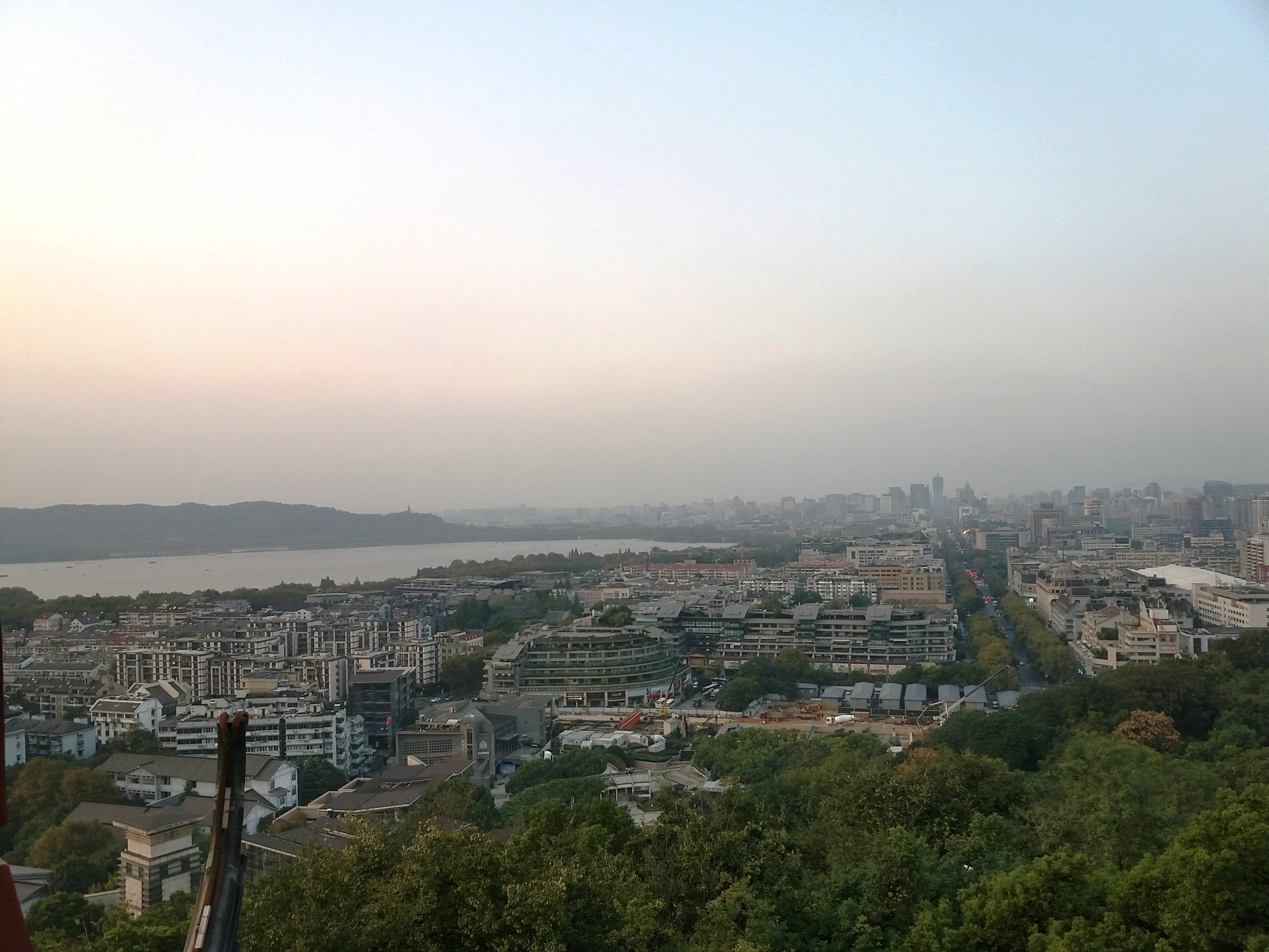 Views from City God Pavilion, Hangzhou